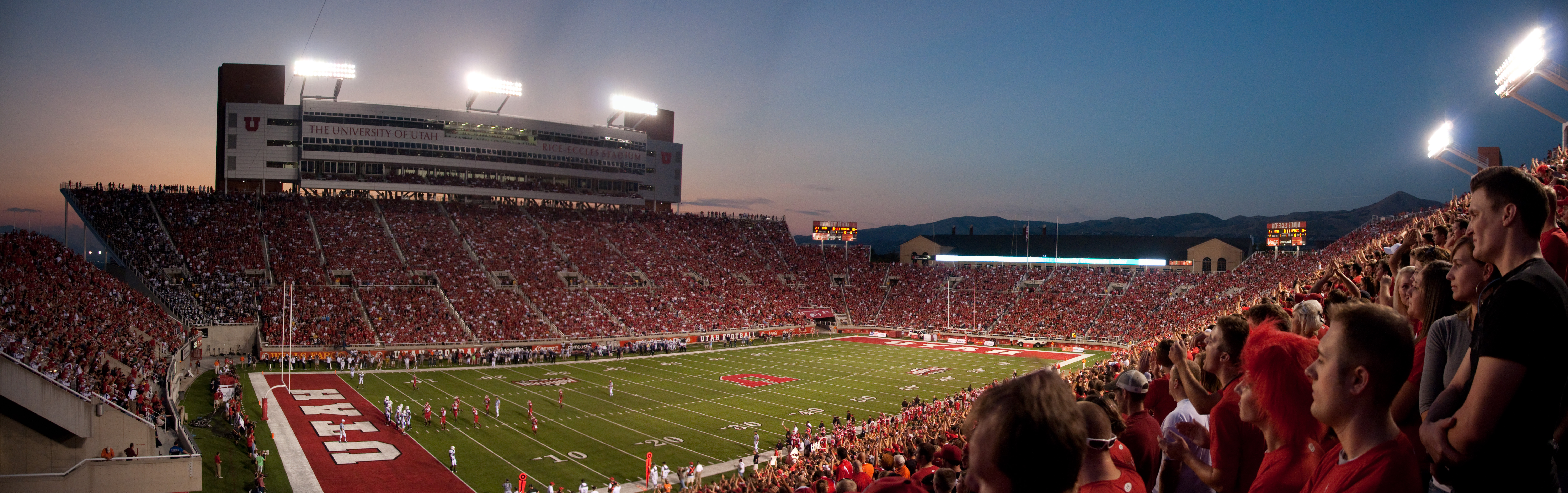 Rice Eccles Stadium from the MUSS.